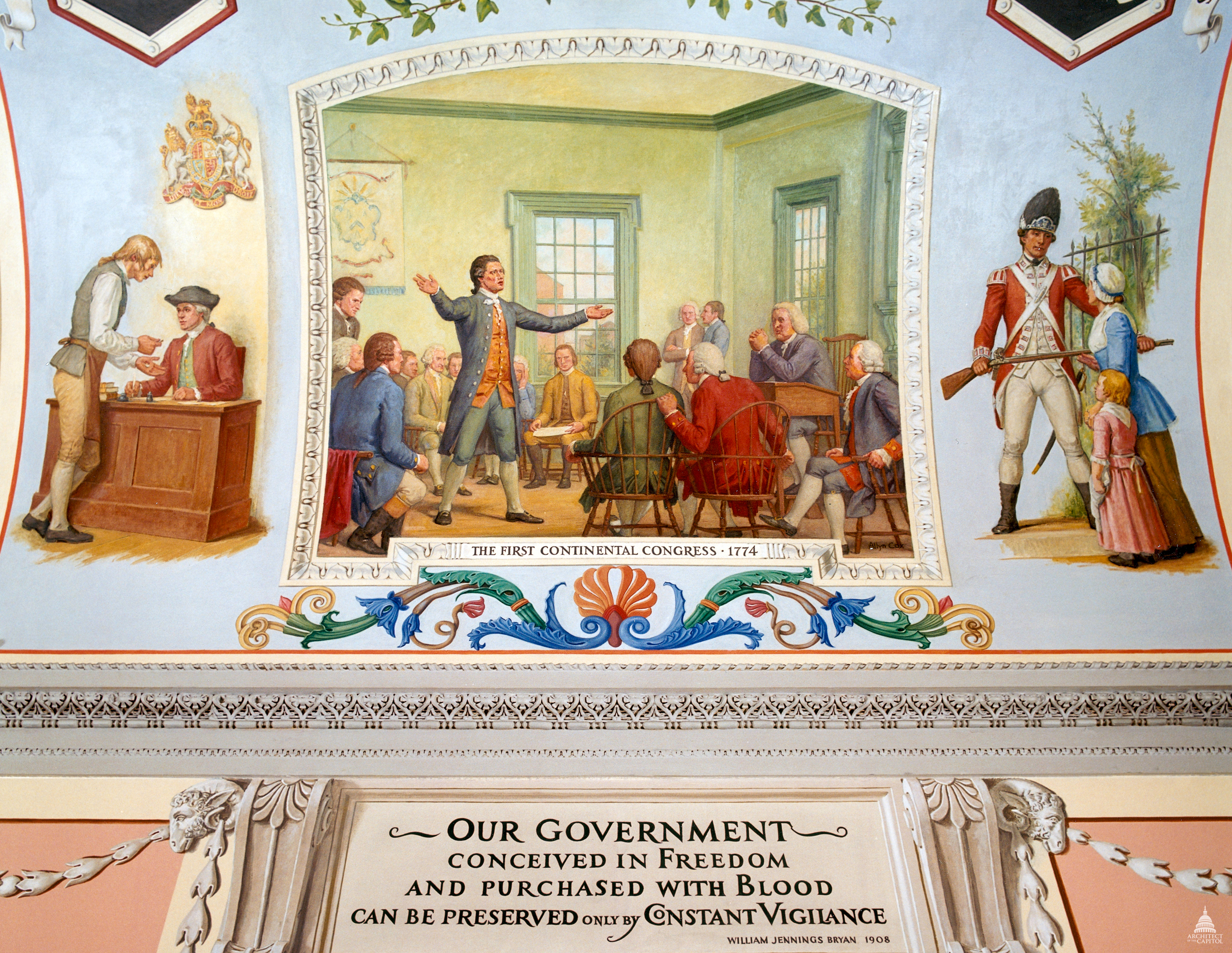 Allyn Cox Mural in oil on Canvas 1973-1974 Great Experiment Hall Cox Corridors Delegates from twelve of the thirteen colonies that would ultimately join in the American Revolutionary War met from September 5 to October 26, 1774 at Carpenter's Hall in Philadelphia to discuss responses to increased British oppression. This convention, the First Continental Congress, formally declared that colonists should have the same rights as Englishmen; they also agreed to form the Continental Association, which called for the suspension of trade with Great Britain. The mural depicts an oration by Patrick Henry in Carpenters' Hall. Left: A colonist is shown making a tax payment. Taxation without representation was a major complaint against the royal government. Right: A soldier blocks the path of a woman and child, symbolizing the armed occupation that incensed many colonists. This official Architect of the Capitol photograph is being made available for educational, scholarly, news or personal purposes (not advertising or any other commercial use). When any of these images is used the photographic credit line should read “Architect of the Capitol.” These images may not be used in any way that would imply endorsement by the Architect of the Capitol or the United States Congress of a product, service or point of view. For more information visit